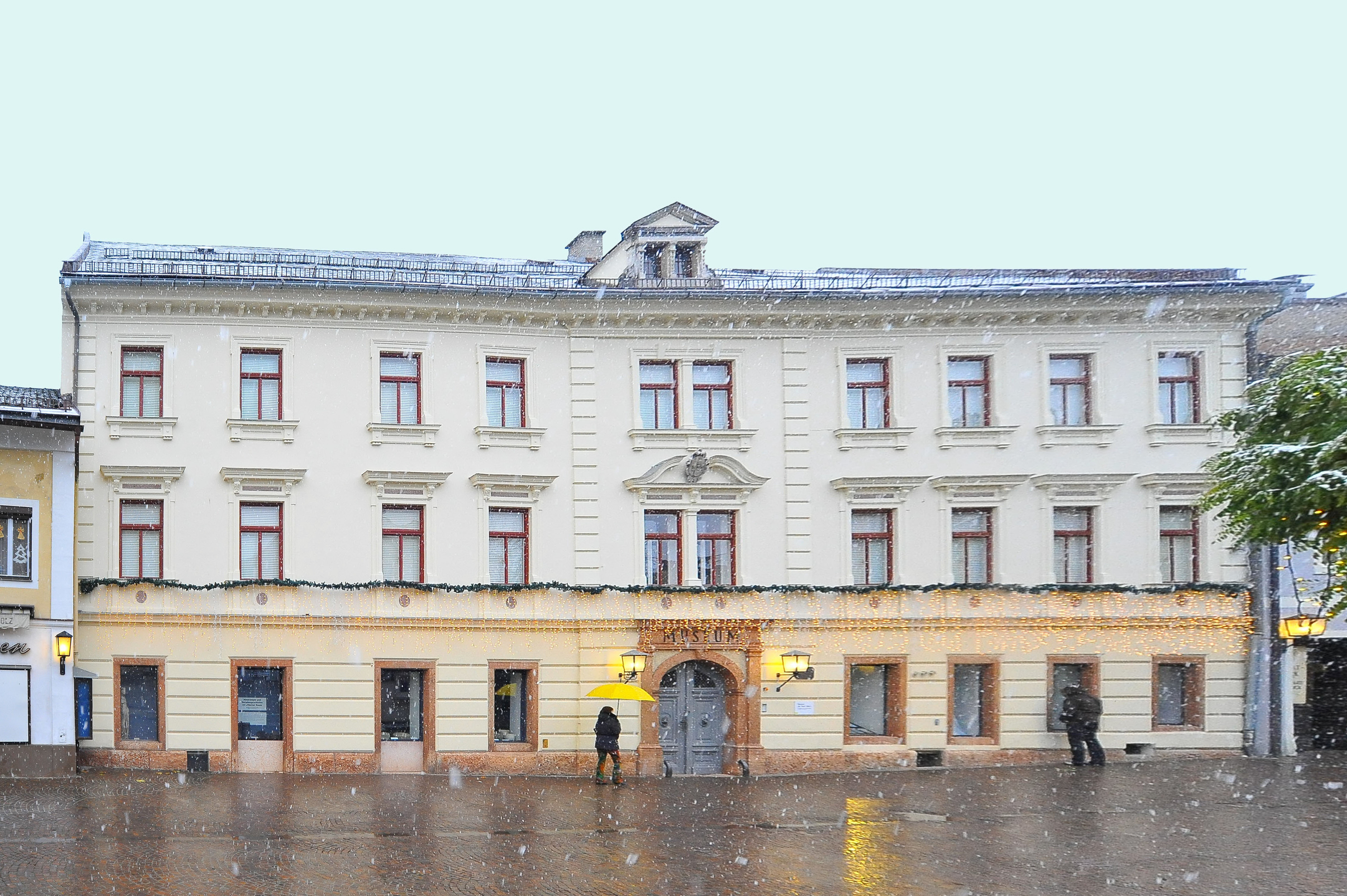 City museum on Widmanngasse #38, inner city, statutary city Villach, Carinthia, Austria, EU